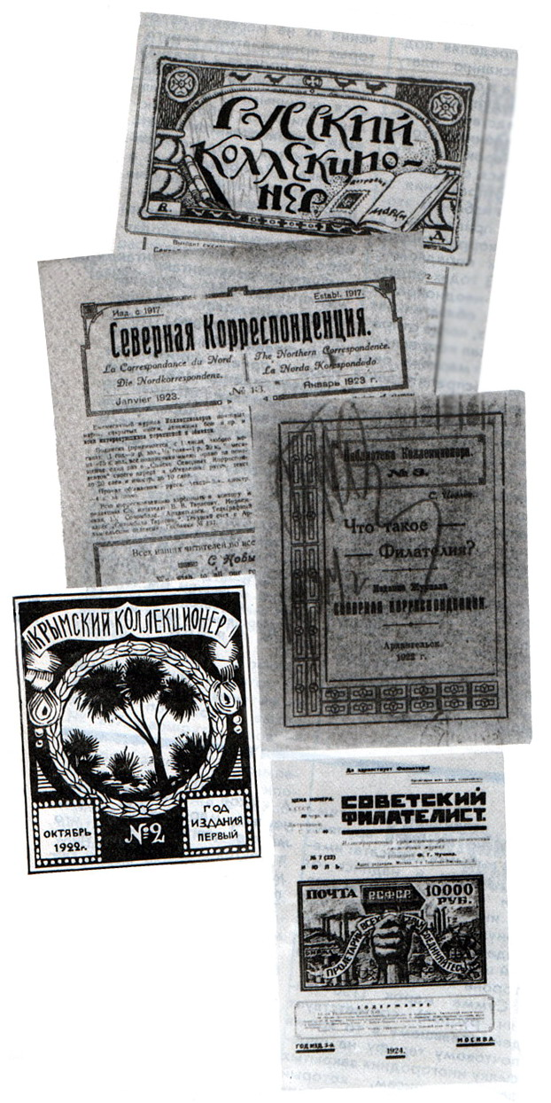 Russian philatelic magazines, 1920s